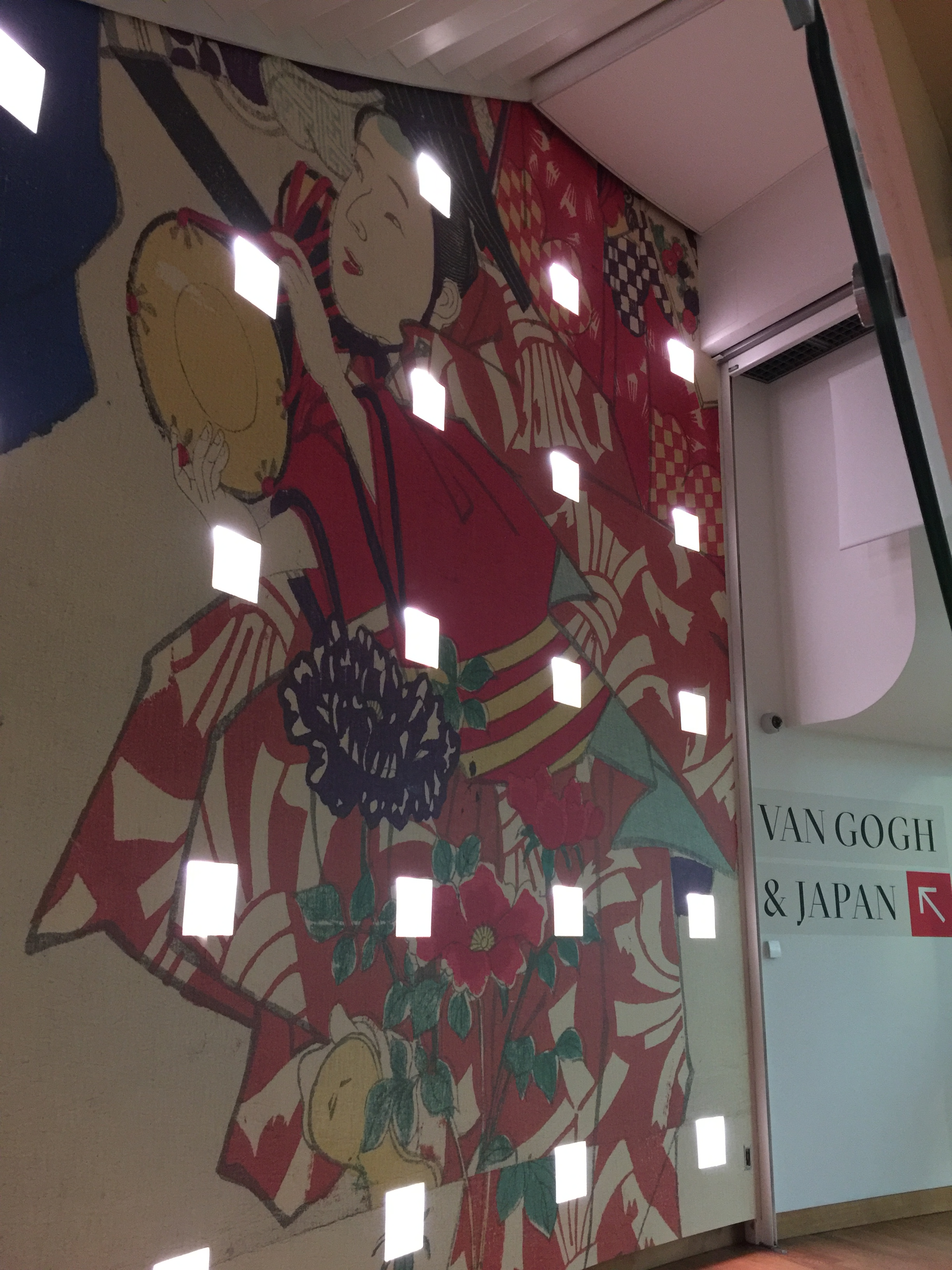 Wall decoration in Van Gogh Museum 2018 (staircase). Based on an anonymous woodcut: Two Manzai dancers and kite flying women and children at the New Year. (Japan, 1875).